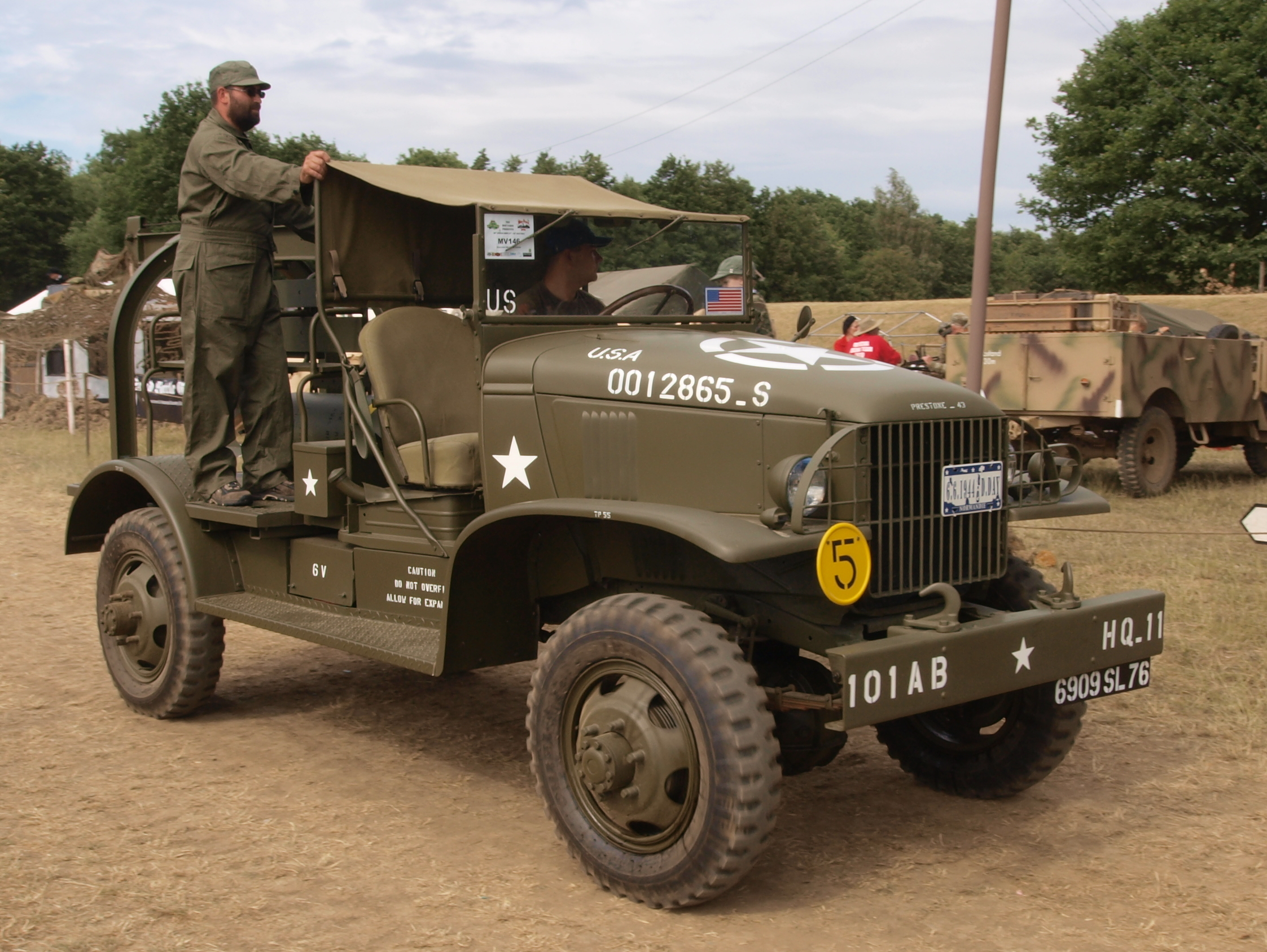 Chevrolet M6 Bomb Carrier (1943) (owner Yohann Legros)